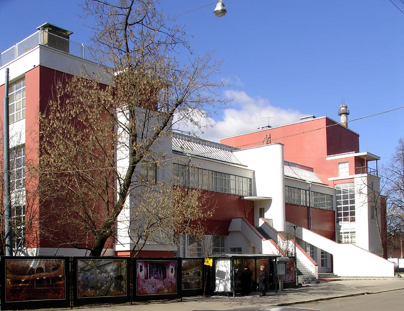 Svoboda Club by Konstantin Melnikov, Vyatskaya Street facade, Moscow, Russia.